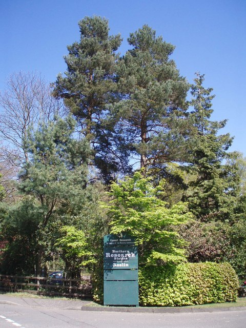 Northern Research Station Plenty of trees to study here at the entrance to the Northern Research Station of Forest Research, itself part of the Forestry Commission.